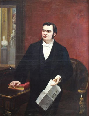 Portrait de Moïse Millaud, (Bordeaux 1813 et Paris 1871)